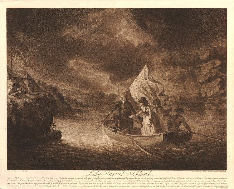 Lady Harriet Acland (1749/1750-1815) (née Fox-Strangways) on the River Hudson. Wife of Colonel John Dyke Acland (1746-1778) of Tetton and Pixton in Somerset. Inscribed below: This amiable Lady accompanied her Husband to Canada in the Year 1776, & during two Campaigns, under went such fatigue & distress as female fortitude was thought incapable of supporting; and once She narrowly escaped with life from her Tent which was set on fire in the Night. The Event here commemorated deserves to be recorded in History. In the unfortunate Action between G. Burgoyne & G. Gates Oct,, 7, 1777, Major Ackland was wounded & made Prisoner, when his Lady received the news She formed the heroic Resolution of delivering herself into the hands of the Enemy that she might attend him during the Captivity For this purpose, with a Letter from G. Burgoyne to G. Gates, accompanied by the Rev. Mr,, Brudinell who carried a Flag of Truce, one female servant, & her husbands Valet, she rowed down Hudsons River in an open boat towards the America Camp, but Night coming on before she reached their outposts the Guards on duty refused to receive her & threatned to fire upon her if she moved till morning In this dreadful situation for 7 or 8 dark & cold hours, she was compelled to wait on the Water hald dead with anxiety & terror. The morning put an end to her distress, she was receiv'd by Gen. Gates & restored to her husband with that politeness & humanity her sex, quality, & Virtue so justly merited. / See G. Burgoynes Narrative'.